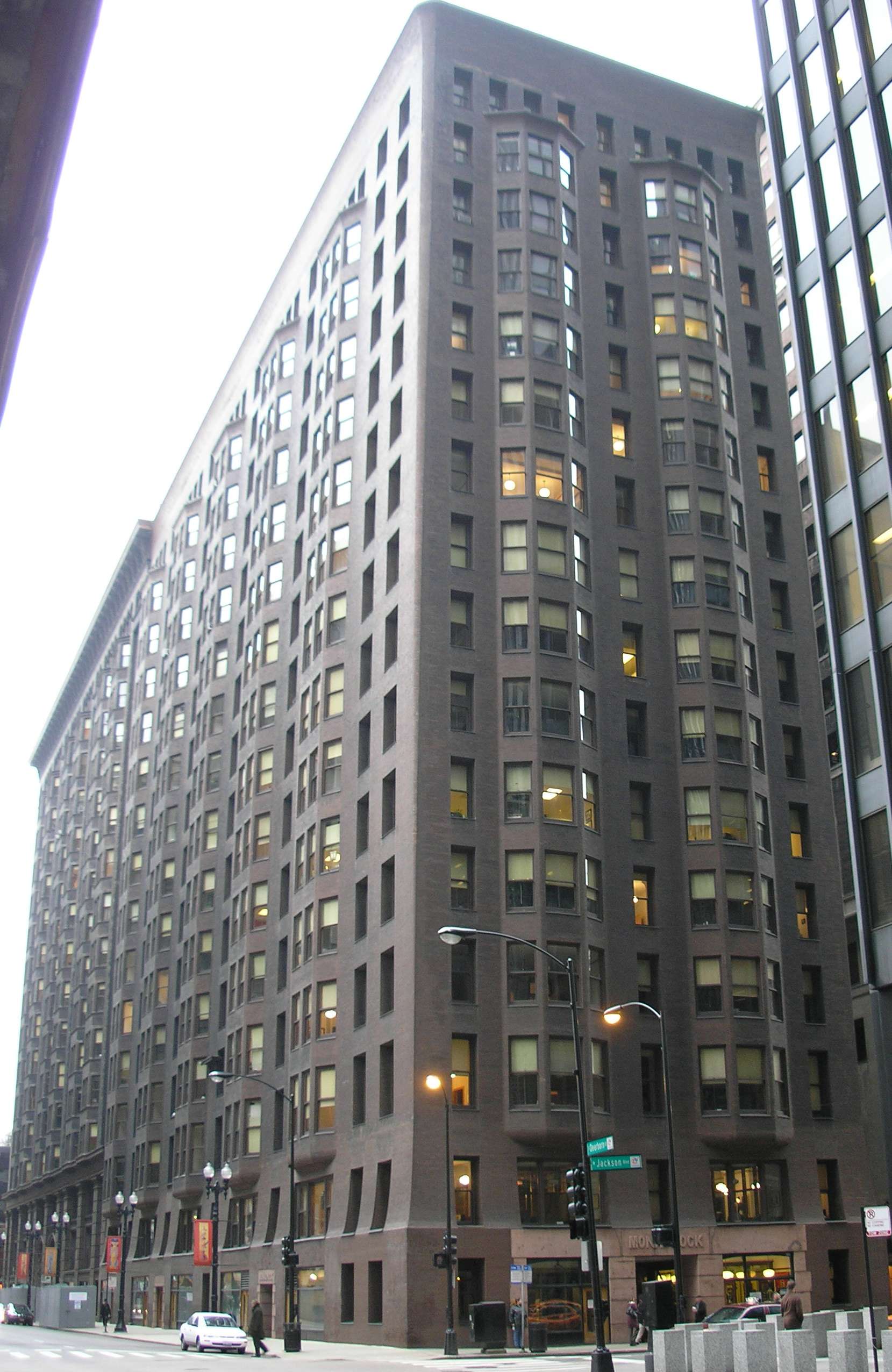 The Monadnock Building, 53 West Jackson Boulevard, Chicago, Illinois, seen from the east side of Jackson and Dearborn streets looking south.